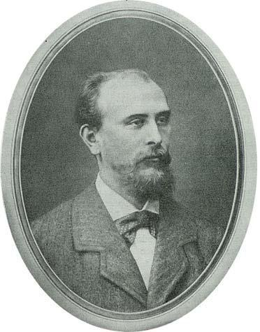 Władysław Ołtuszewski